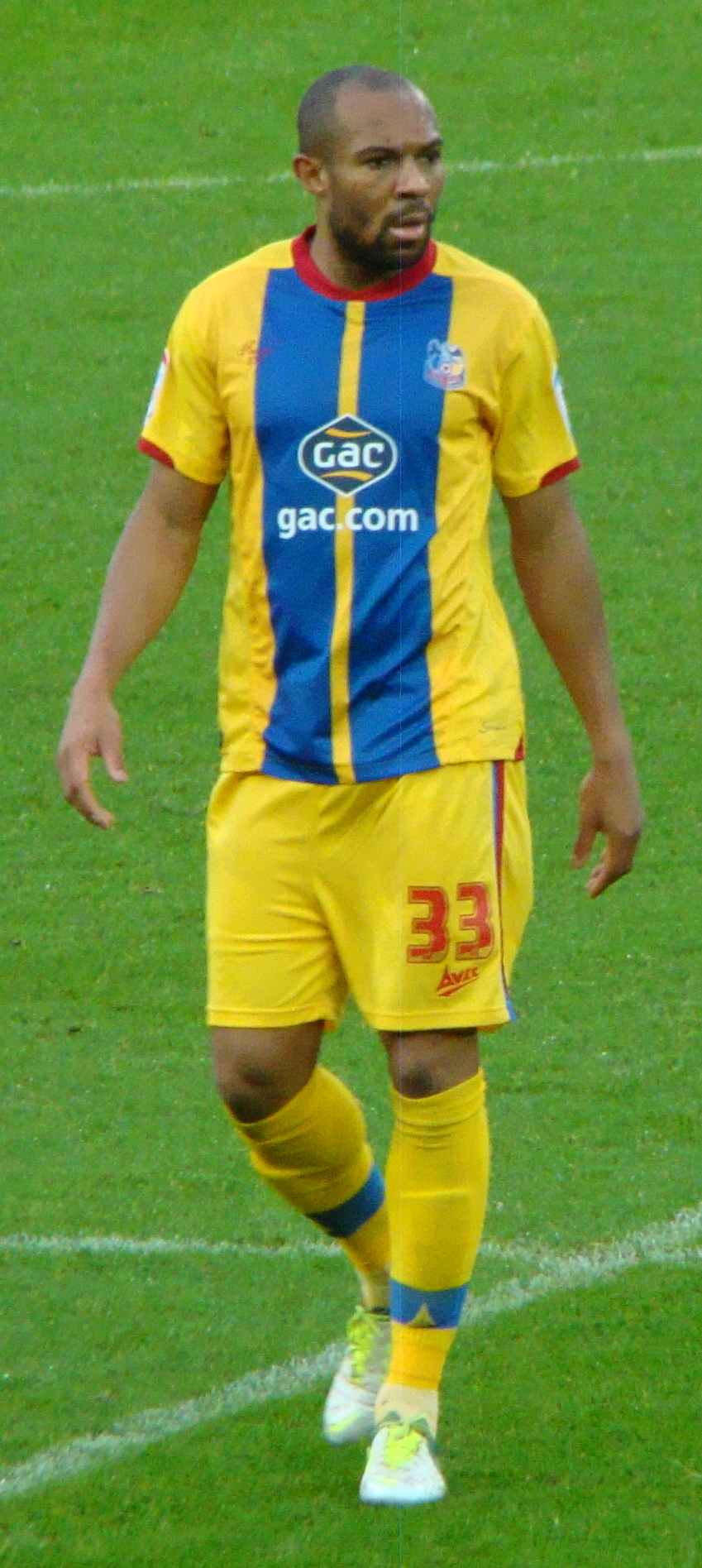 Danny Gabbidon. Image cropped from original at flickr.